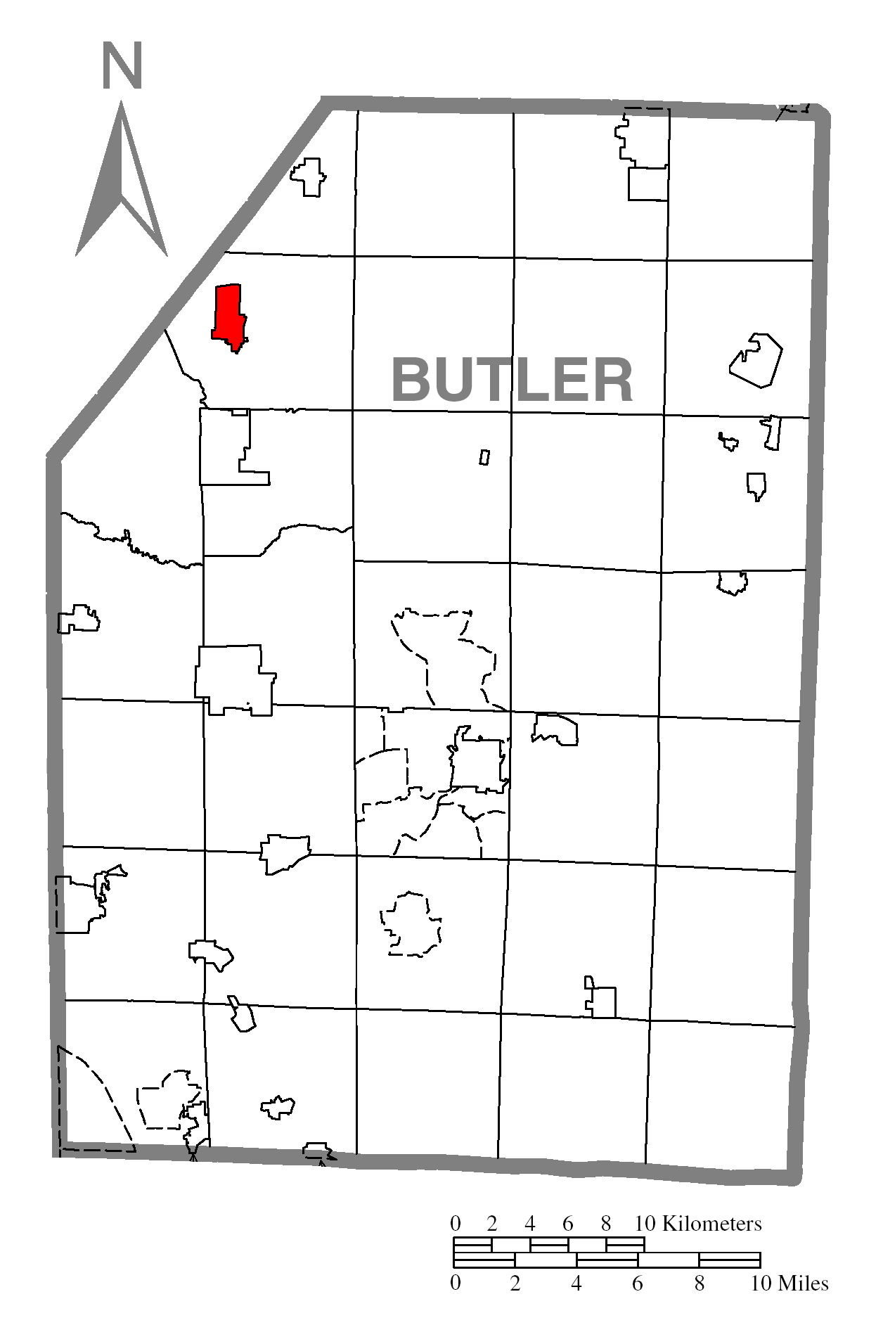 A map of Butler County showing Slippery Rock, Pennsylvania (alternate) highlighted on the map.